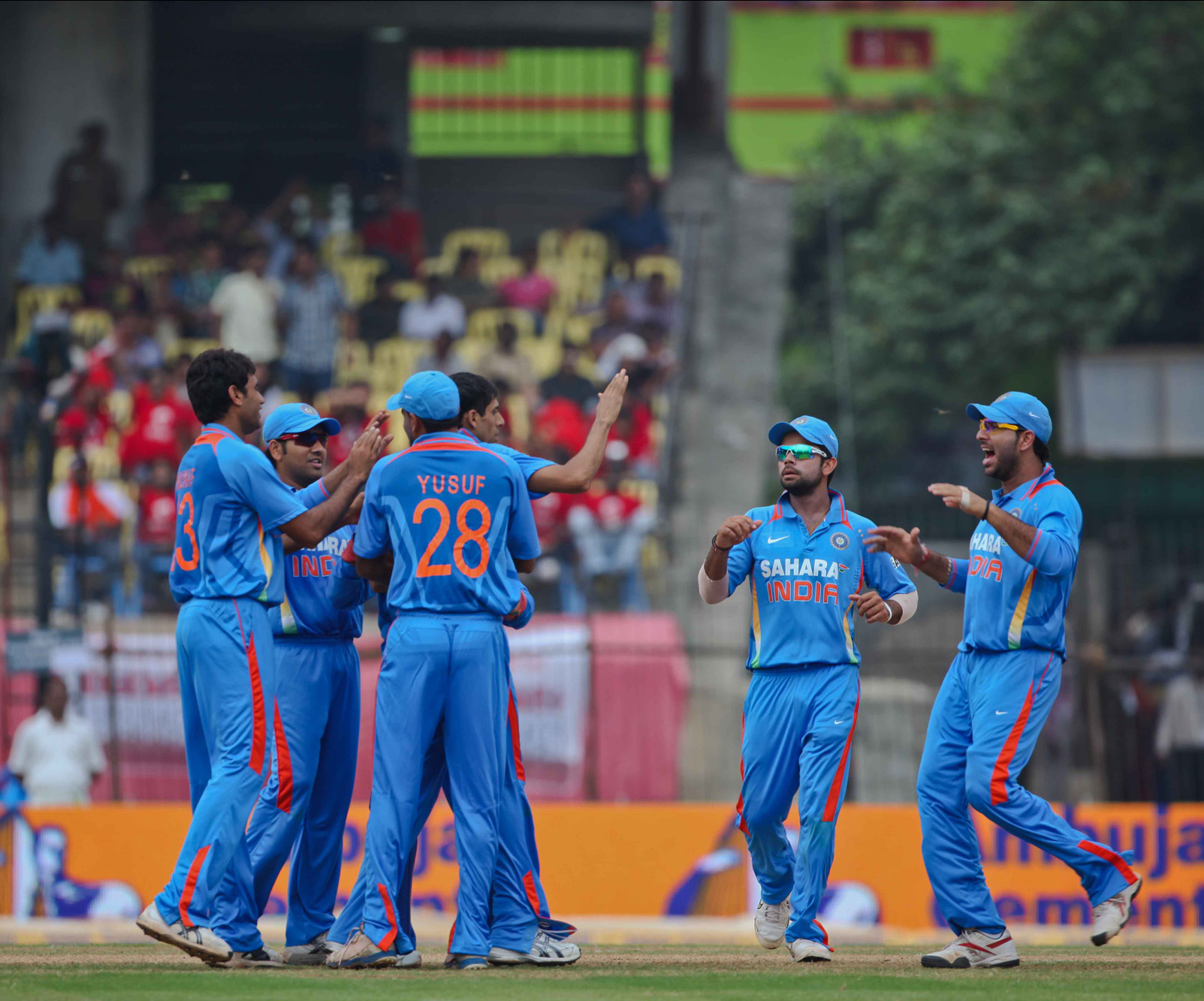 India national cricket team celebrating the fall of a New Zealand wicket, India Vs New zealand One day International, 10 December 2010